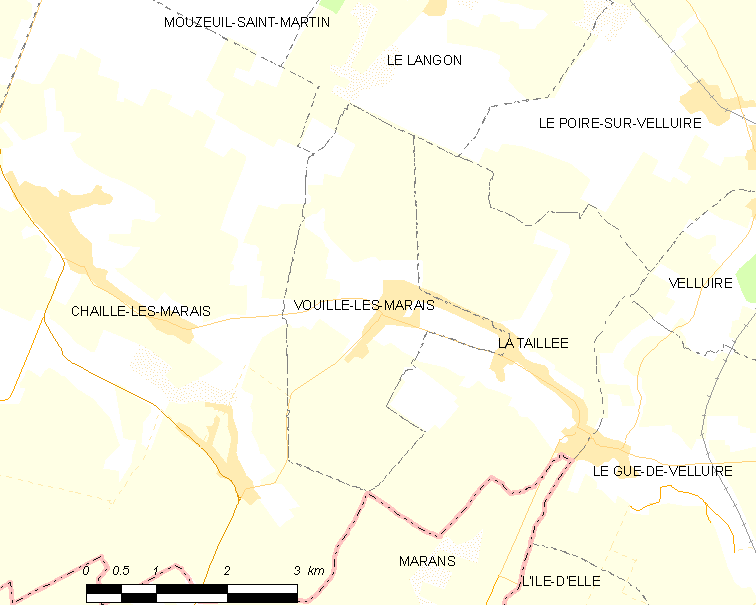 Map of French municipality Vouillé-les-Marais